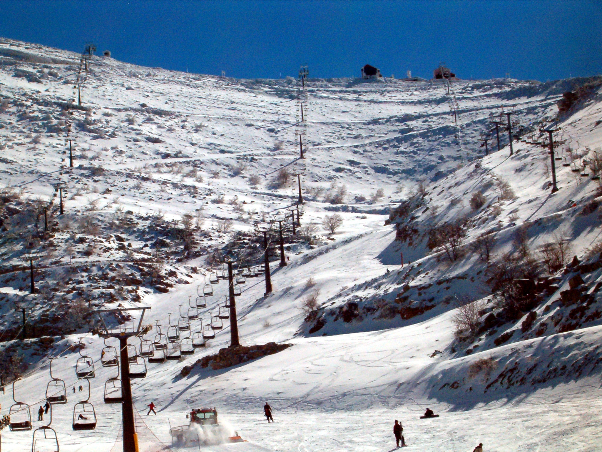 A view from a ski-resort cable car onto Mount Hermon in 2006.